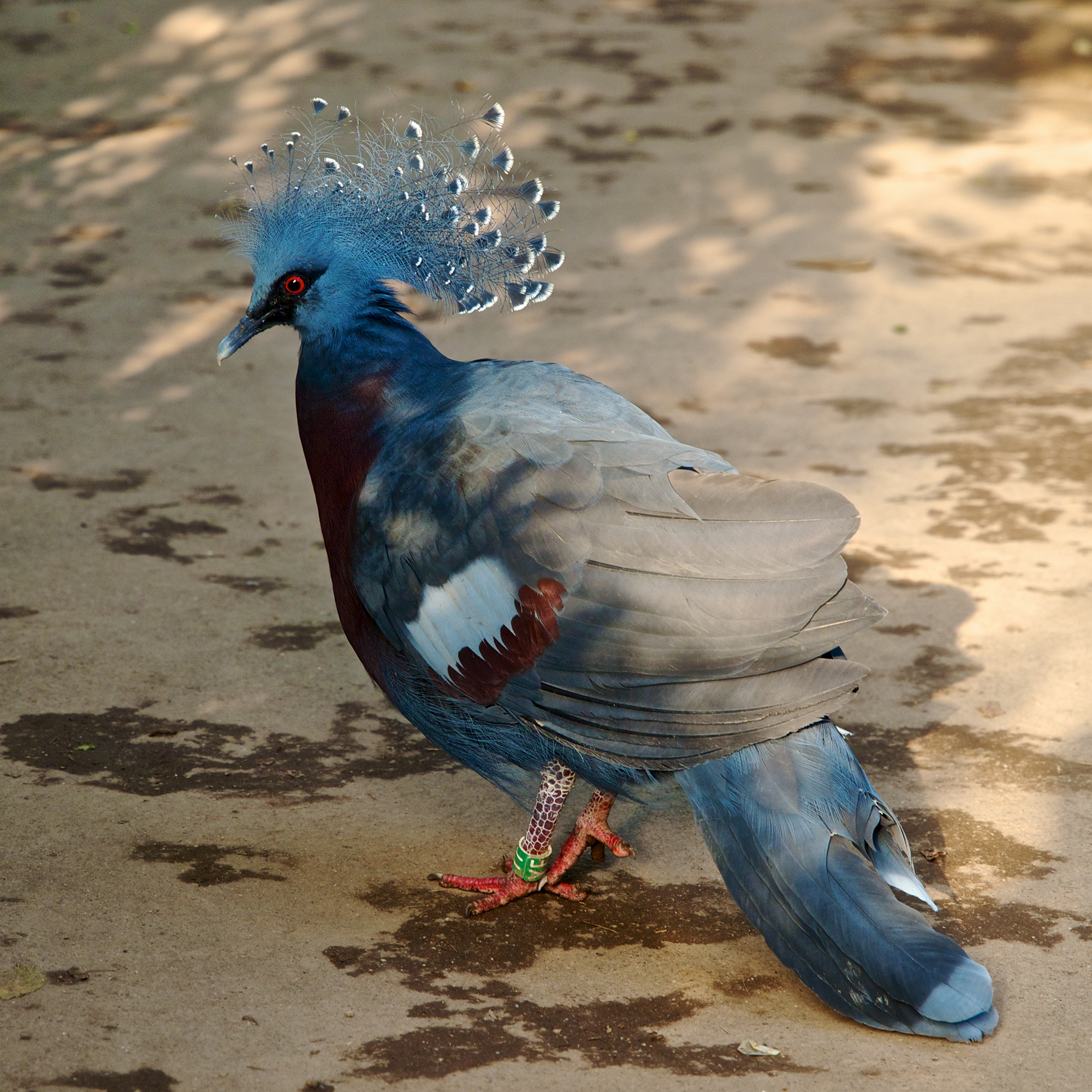 Victoria Crowned Pigeon (Goura victoria), Gondwanaland Zoo Leipzig, Germany